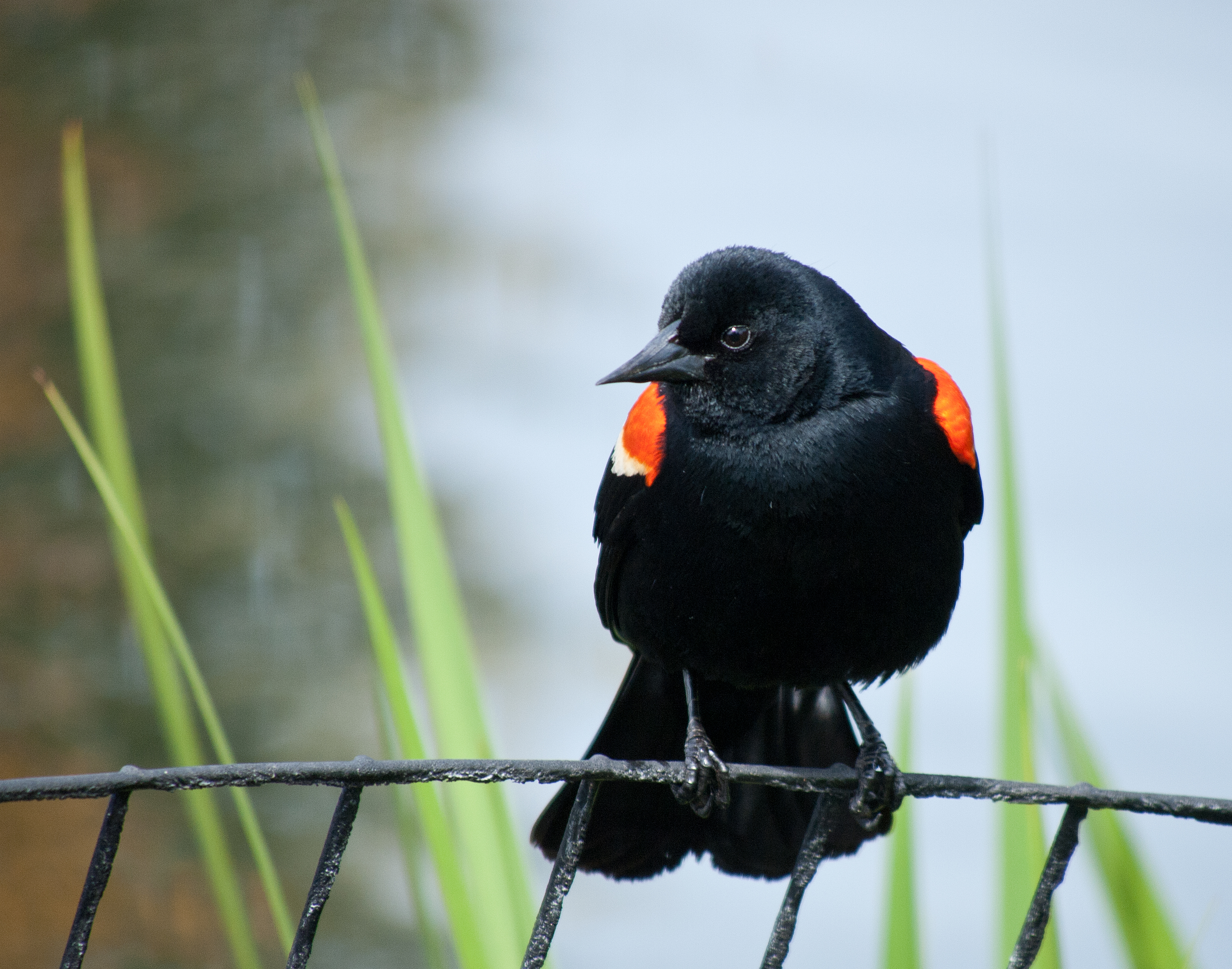 A male Red-winged Blackbird in Chicago, Illinois, USA.